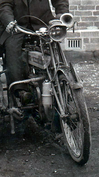 Early Haden (motorcycle), circa 1906-09, Riden here by A.H. Haden, with sidecar bars seen. (This is an adjusted crop, made by me from a scan of an old family photograph in my family's possession. The original larger photo has not been previously published. The original photo was created pre-1925, and any copyright has thus long-since expired.)